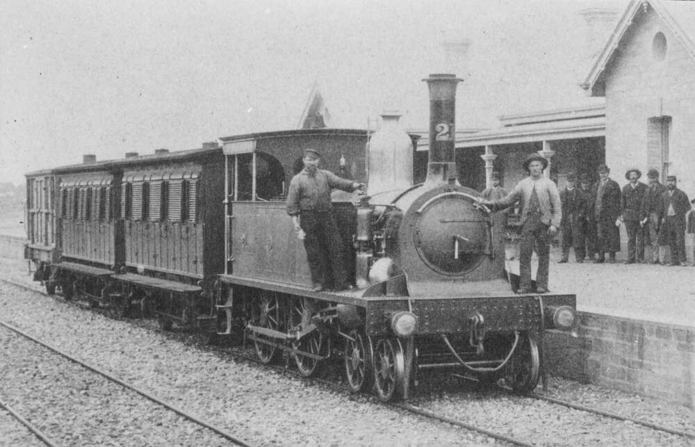 South Australian Railways F Class (1st) No. 21